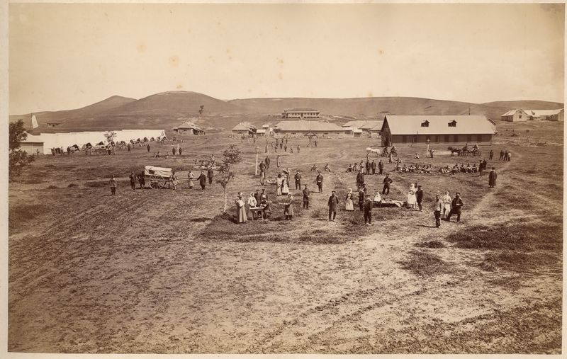 Field hospital at Tbilisi during the Russo-Turkish war 1878.